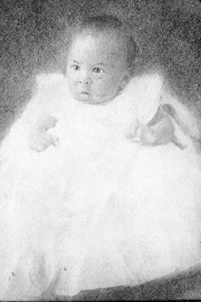 Source: Downloaded from Search:Langston Hughes Courtesy of the Yale Collection of American Literature,Beinecke Rare Book and Manuscript Library CALL NUMBER: JWJ MSS 26 BOX: 633 FOLDER: 14218 SOURCE TITLE: Langston Hughes as a baby ITEM DATE: 1902 REPRO TYPE: 4x5 bw neg CREDIT LINE: Yale Collection of American Literature, Beninecke Rare Book and Manuscripte Library BEINECKE FILE HEADING: Hughes, Langston/39002037249225